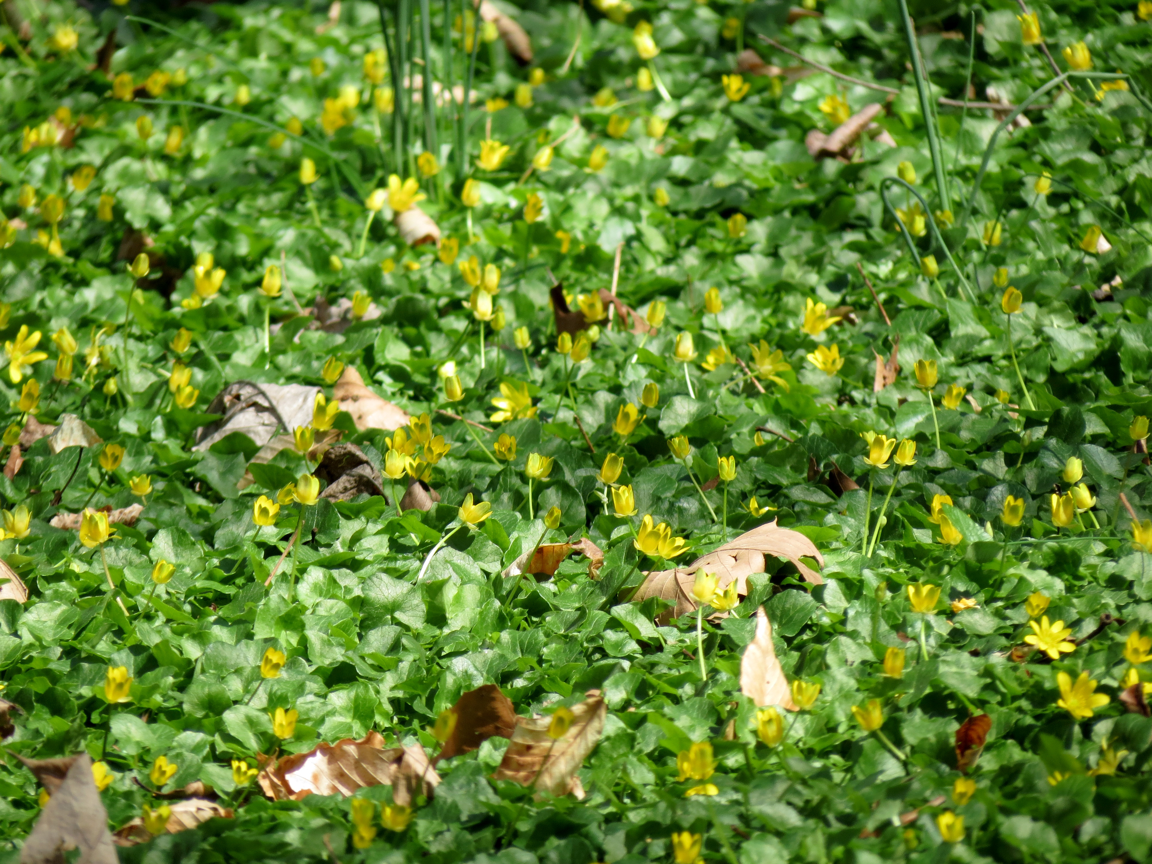 Ficaria verna. Rock Creek Park, Washington, DC, USA